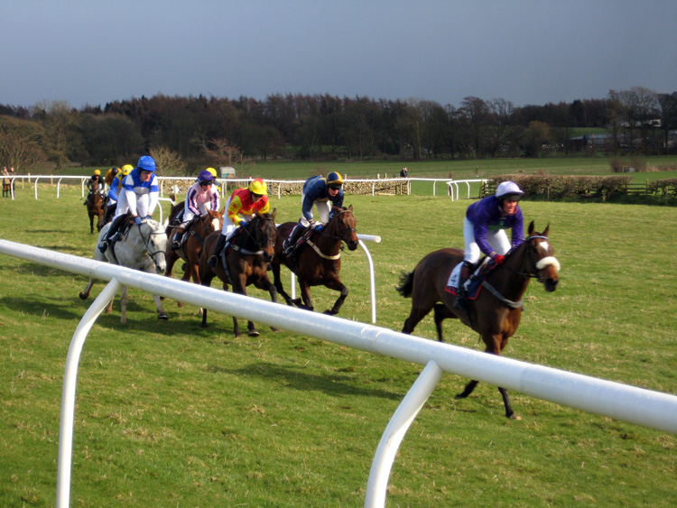 Point to point racing at the Whittington races